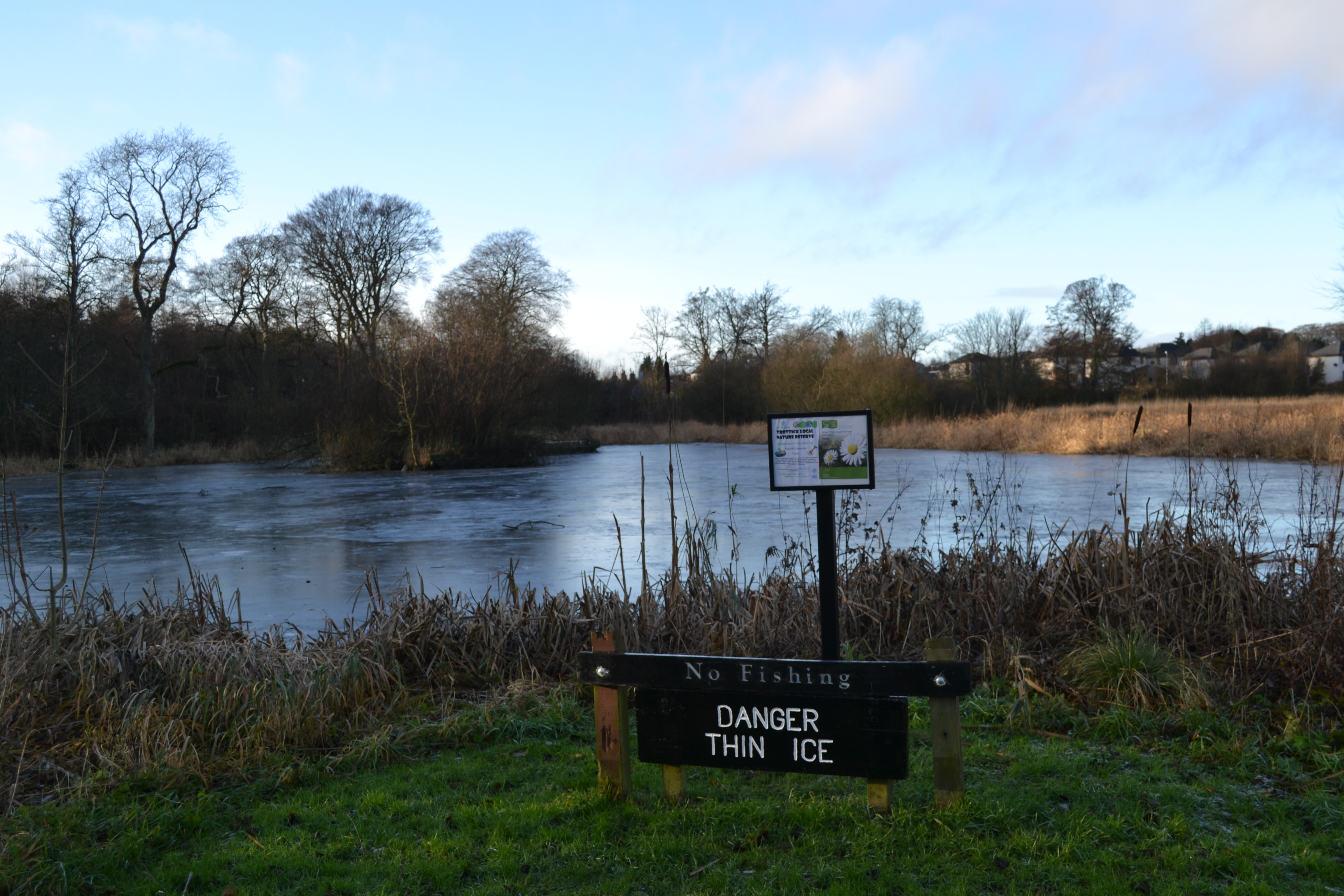 Claverhouse pond